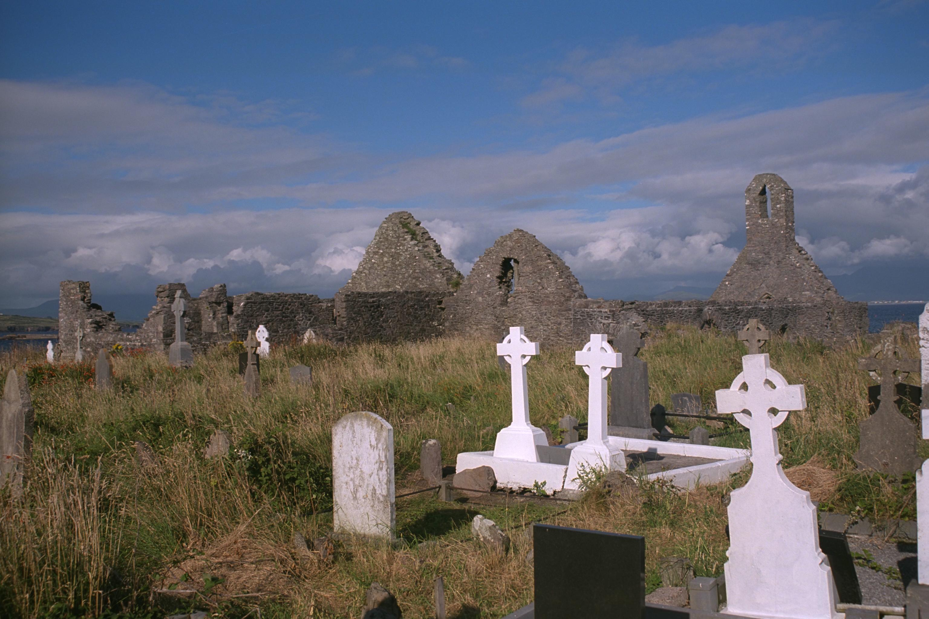 This is the west view of St. Michael Ballinskelligs, an Augustinian monastery in County Kerry, Ireland, which was founded by the community of the early monastery at Skellig Michael who moved to the mainland. This site became a house of Arroasian canons ca. 1210.